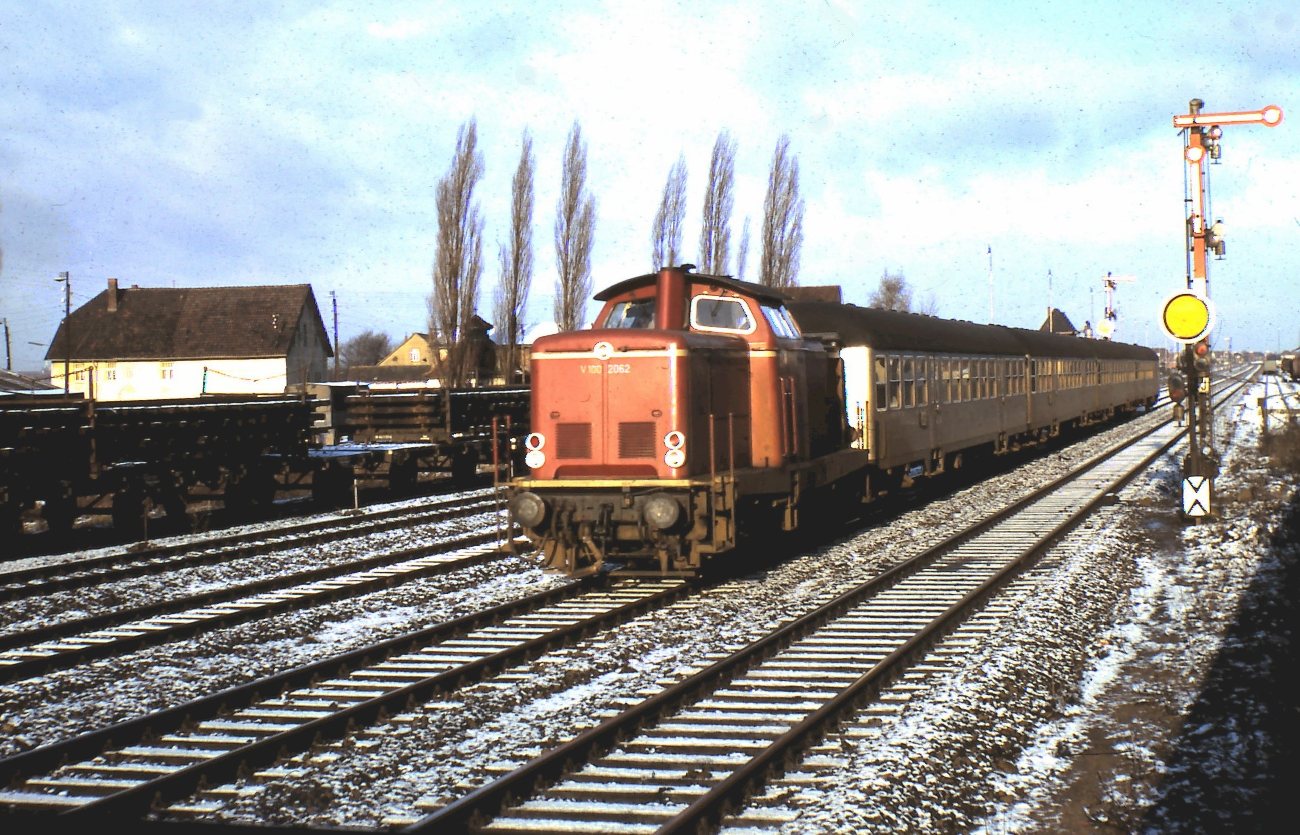 4-track railway line from Hamm to Minden near Porta Westfalica, Germany 1967. At that time not yet electrified.